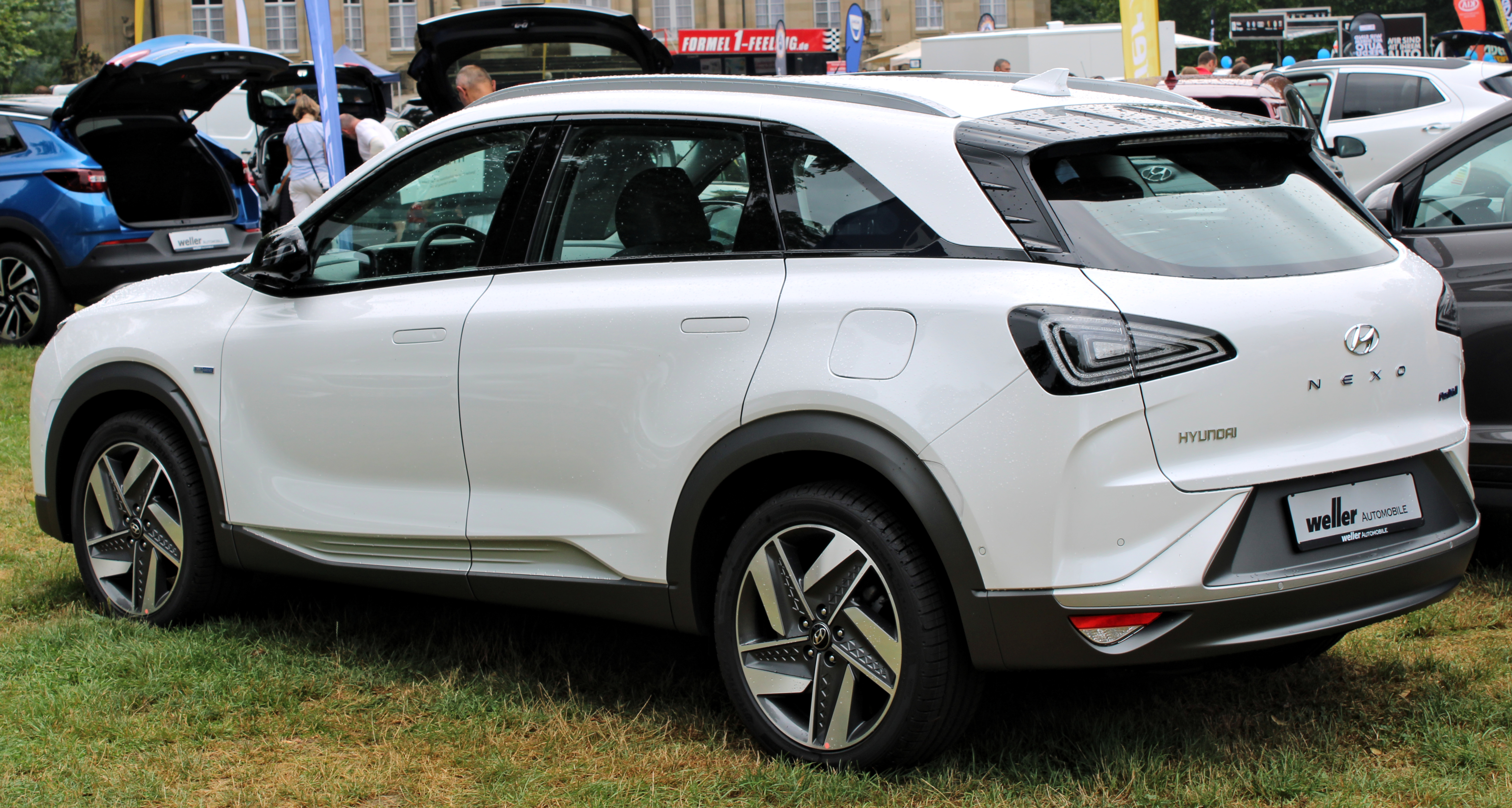 Hyundai Nexo at Schloss Monrepos 2019